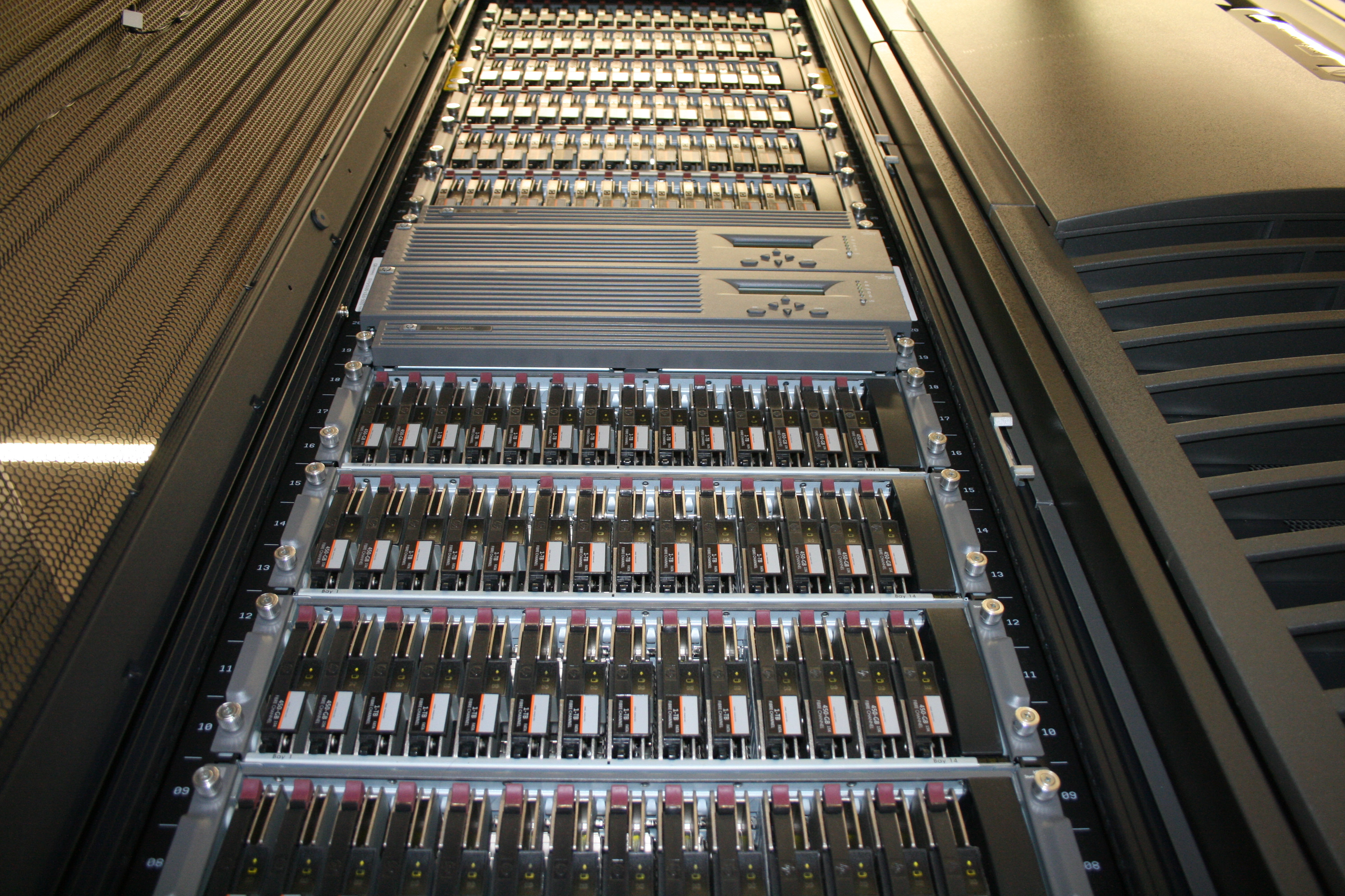 LUSITANIA Supercomputer storage system